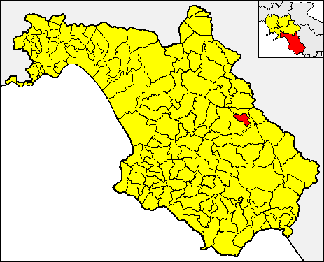 Locator map of the municipality of San Pietro al Tanagro (red) within the Province of Salerno